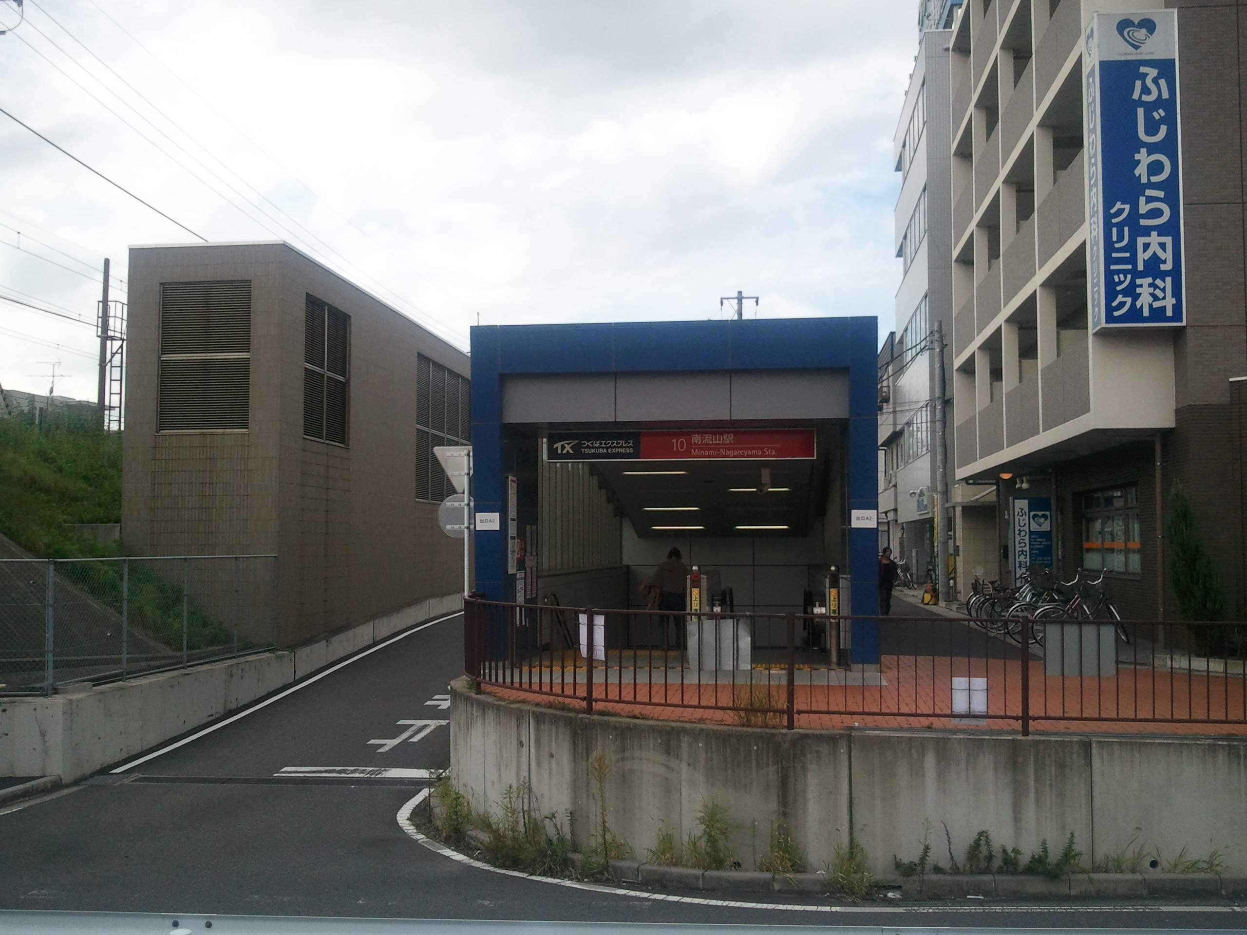 Exit A2 of Minami-Nagareyama Station on the Tsukuba Express